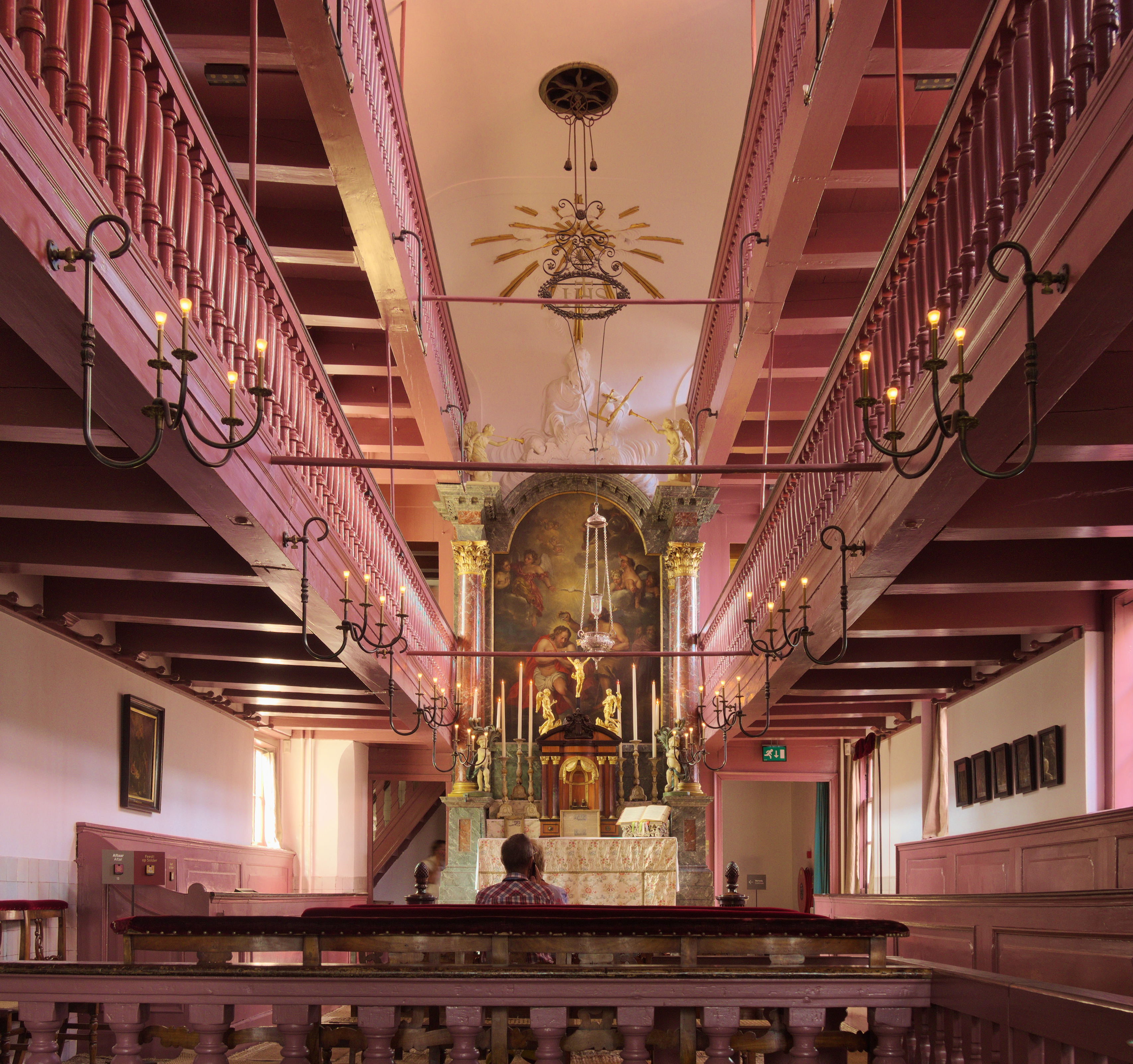 The nave Ons' Lieve Heer op Solder, creating from cutting the floors of two stories.